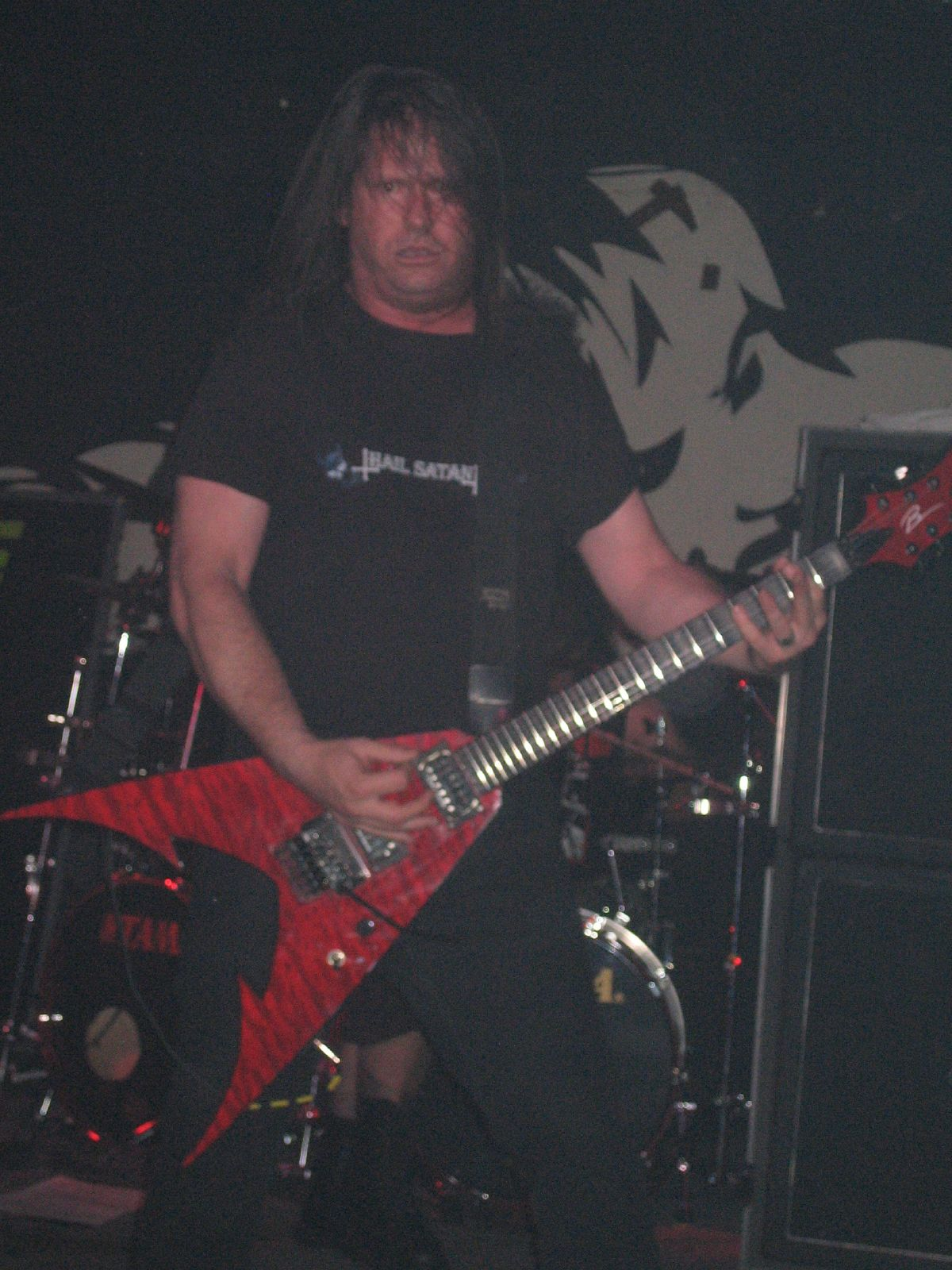 Thrash metal band Exodus. Concert in Hairy Mary's in Des Moines, Iowa. Part of The World Abominations Tour 2005.